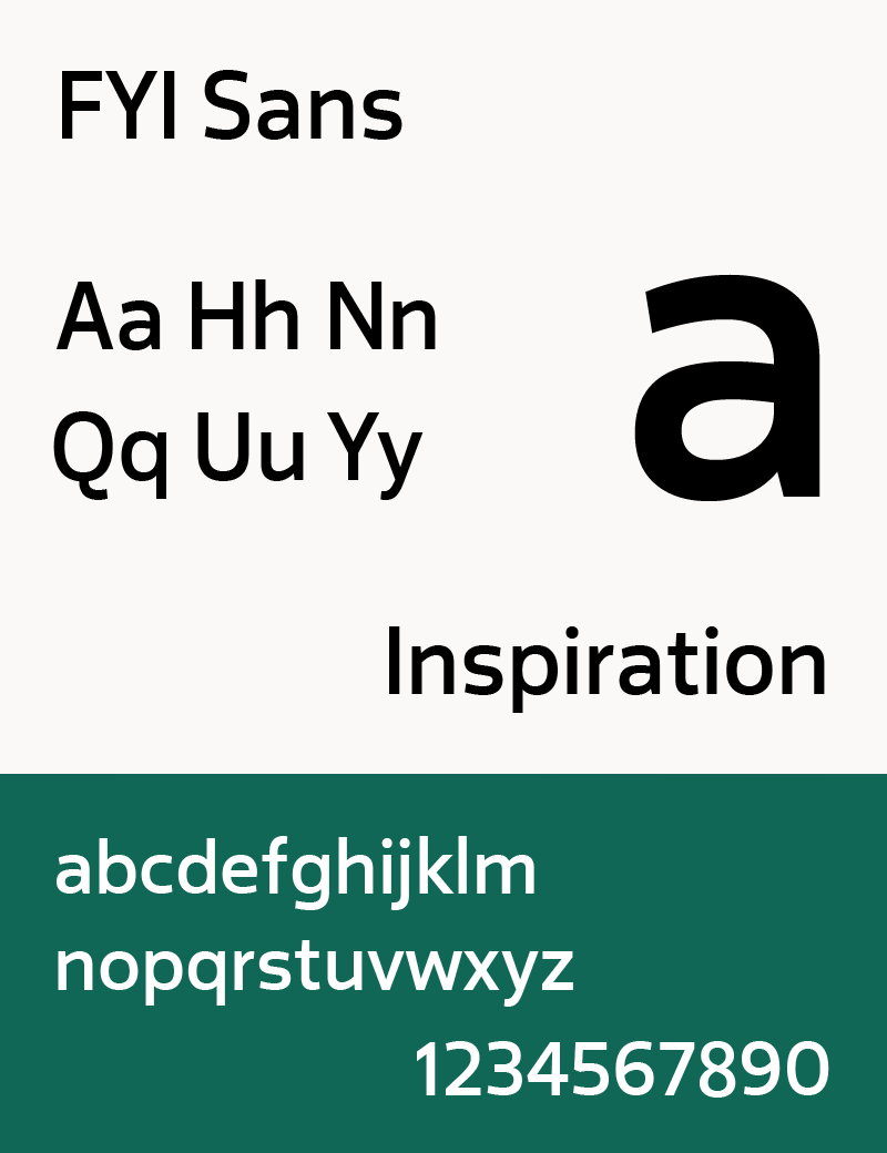 Sample of "FYI Sans" (typeface made for the TV channel FYI)